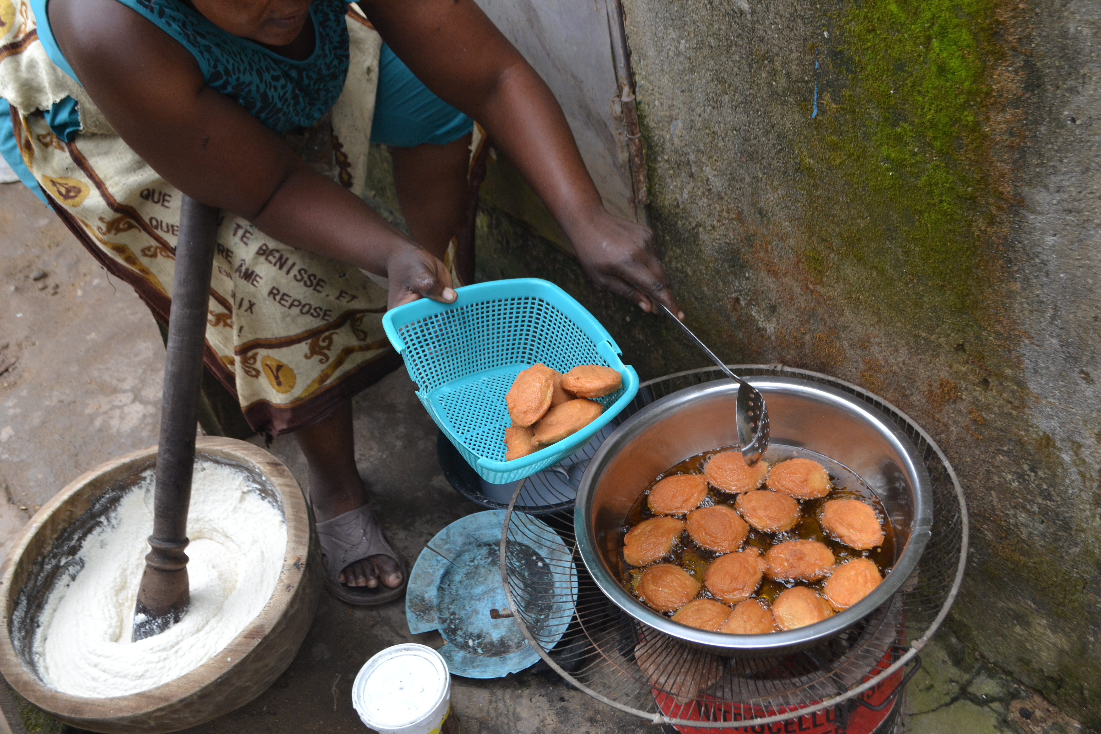 Women removing ready doughnuts from oil